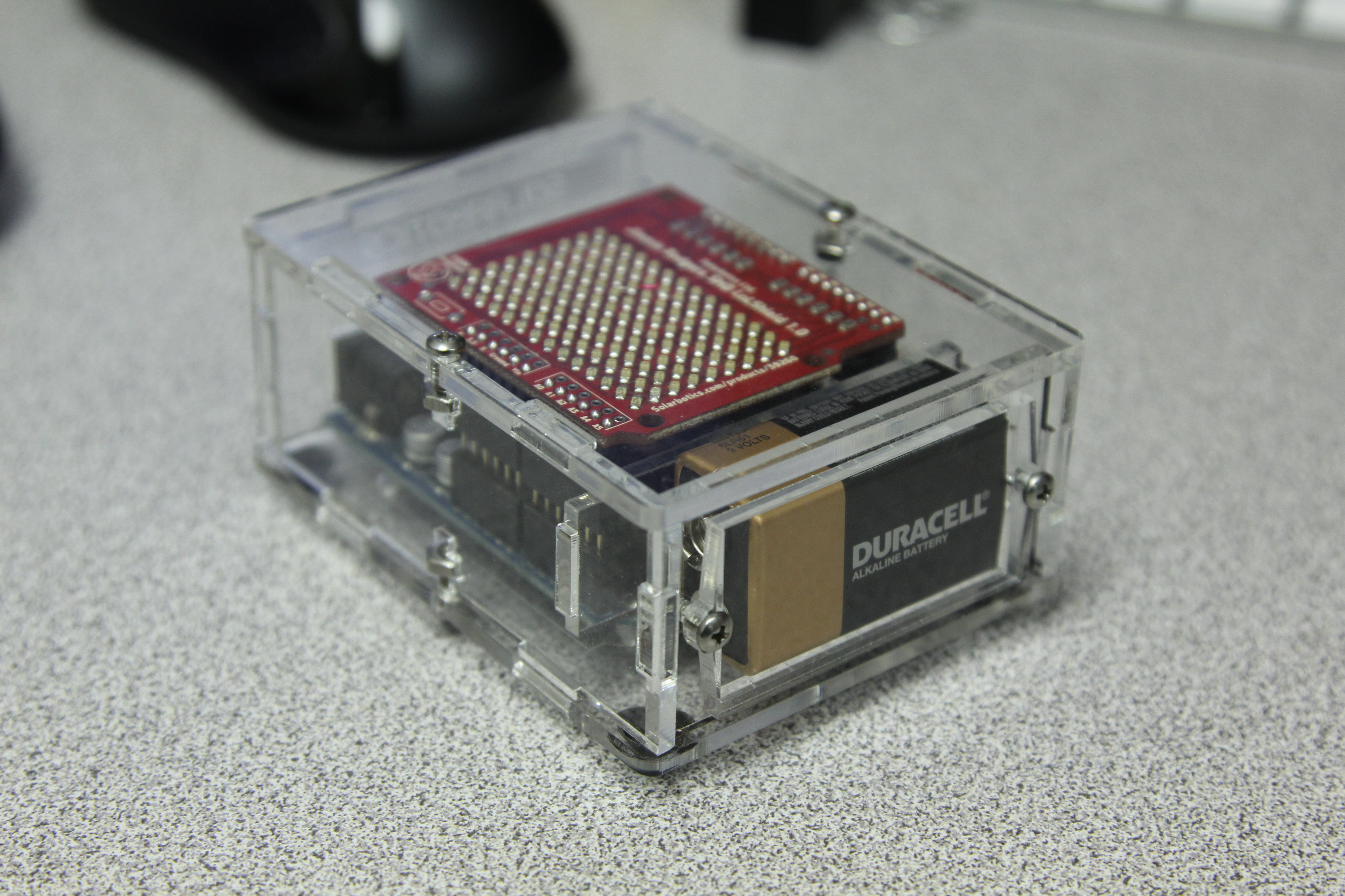 An add-on Gilroy’s been toying with for everybody’s favorite Arduino enclosure, this makes it simple to change out a 9V battery when your project needs the base & lid to stay together.